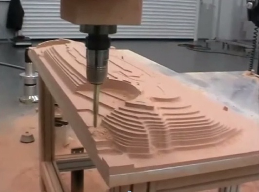 3D CNC Milling: Creation of a landscape modell